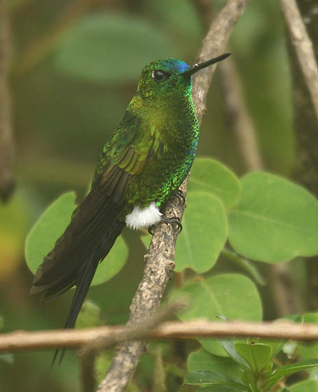 a Sapphire-Vented Puffleg (Eriocnemis luciani) in Yanacocha Reserve, NW Ecuador 3/8/2007